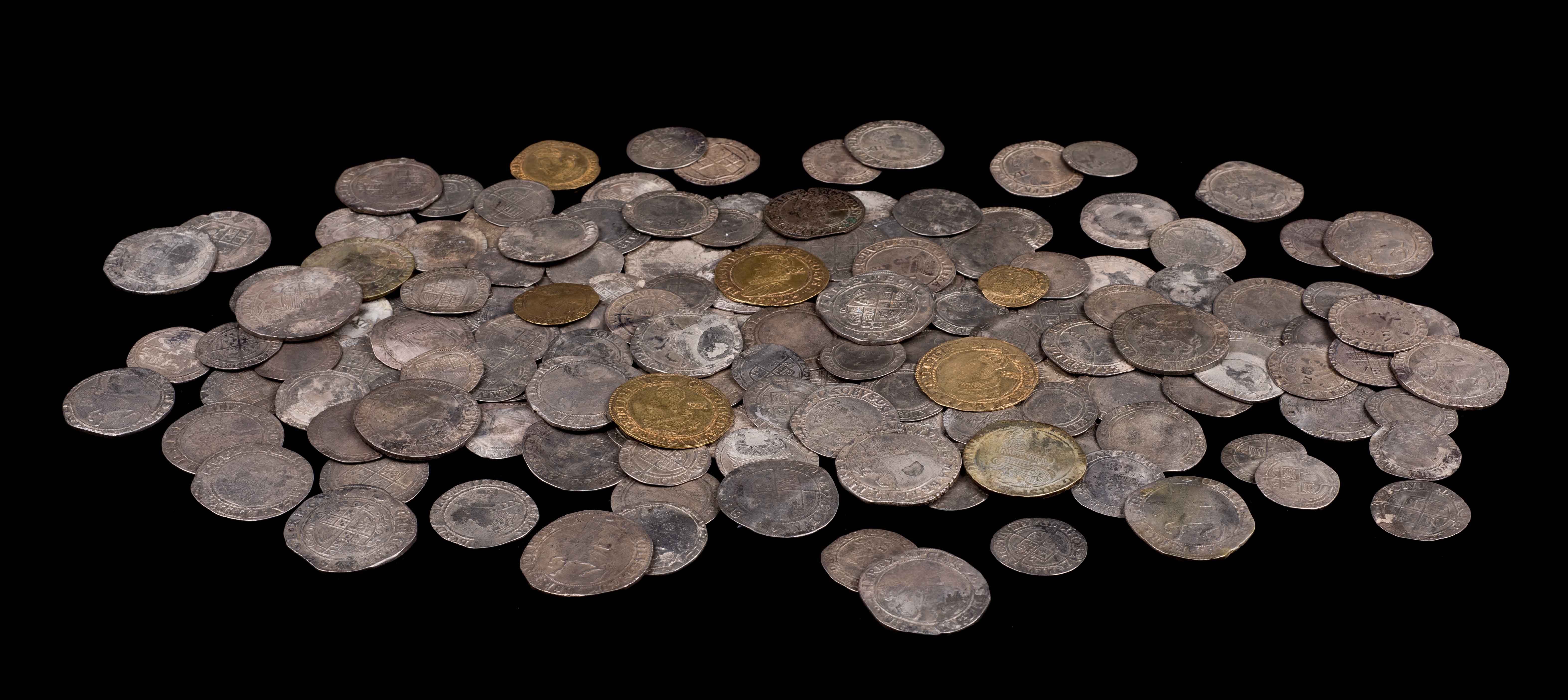 Selection of coins from the Breckenbrough Hoard. In the Yorkshire Museum numismatic collection.